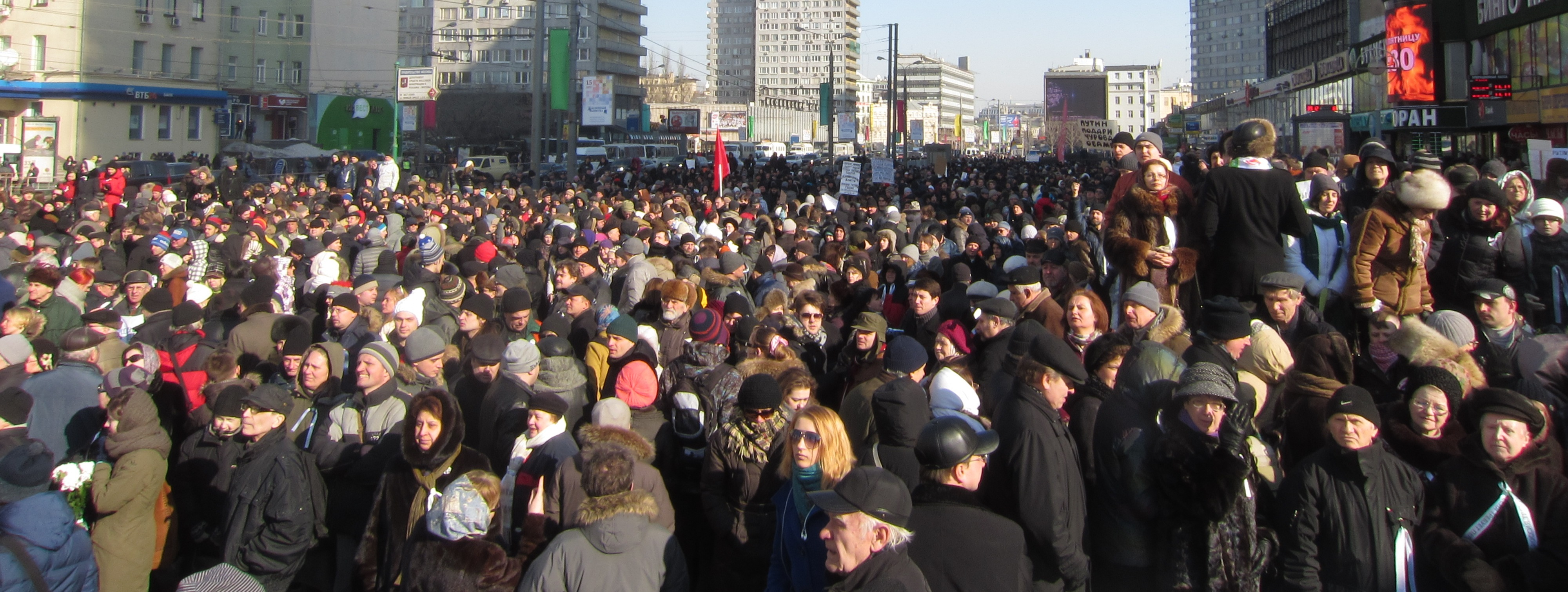 Protesters at Eastern part of the Novy Arbat street at Moscow rally 10 March 2012